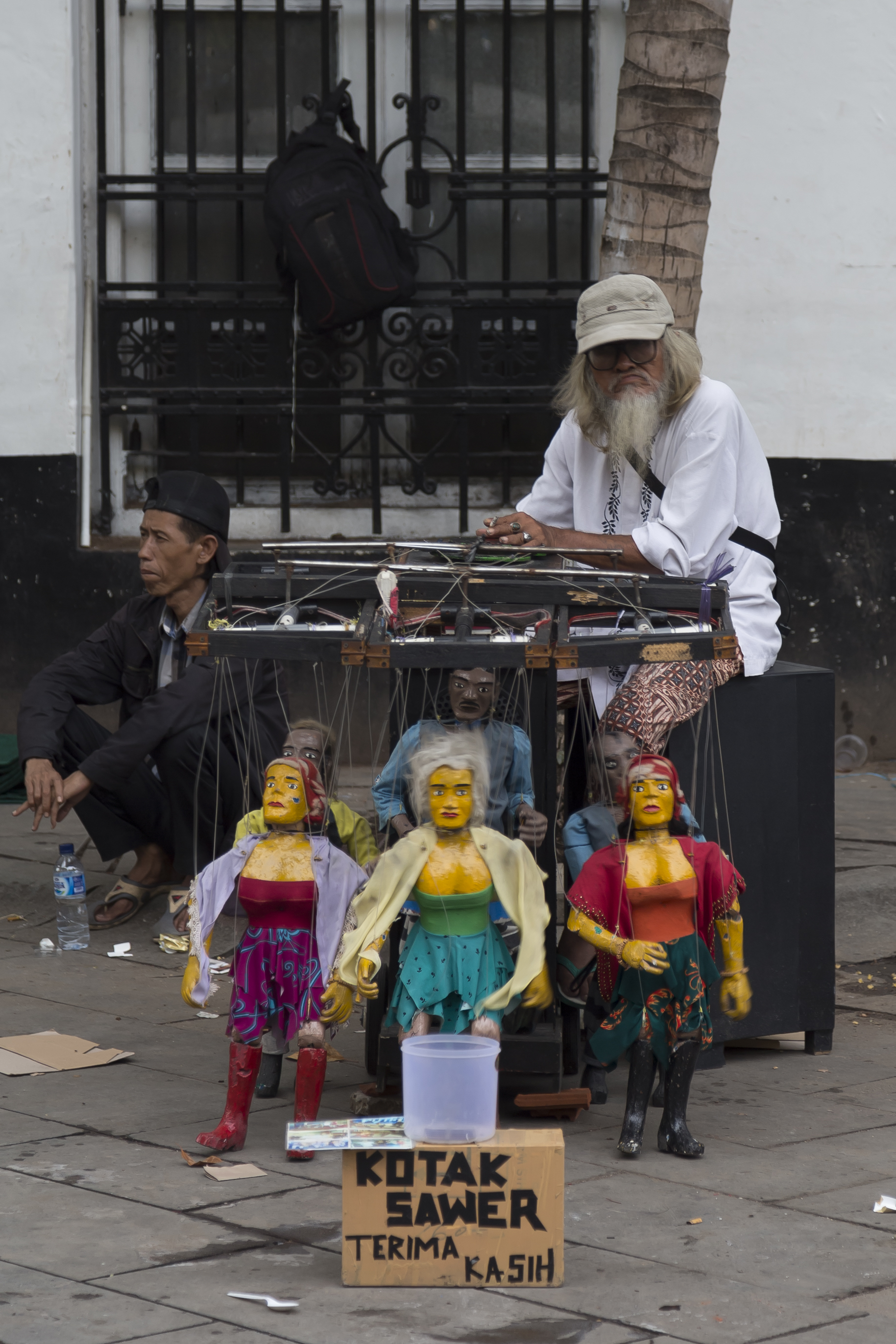 Jakarta, Indonesia: A man, earning his life with a selfmade string puppet theatre in the pedestrian area of Old Town Jakarta.